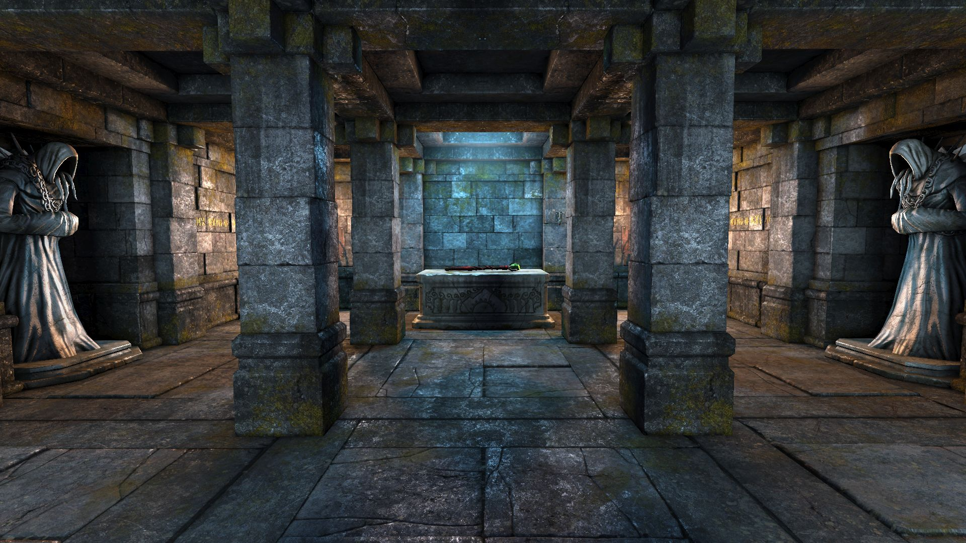 screenshot of the dungeon crawler computer game Legend of Grimrock (2012)